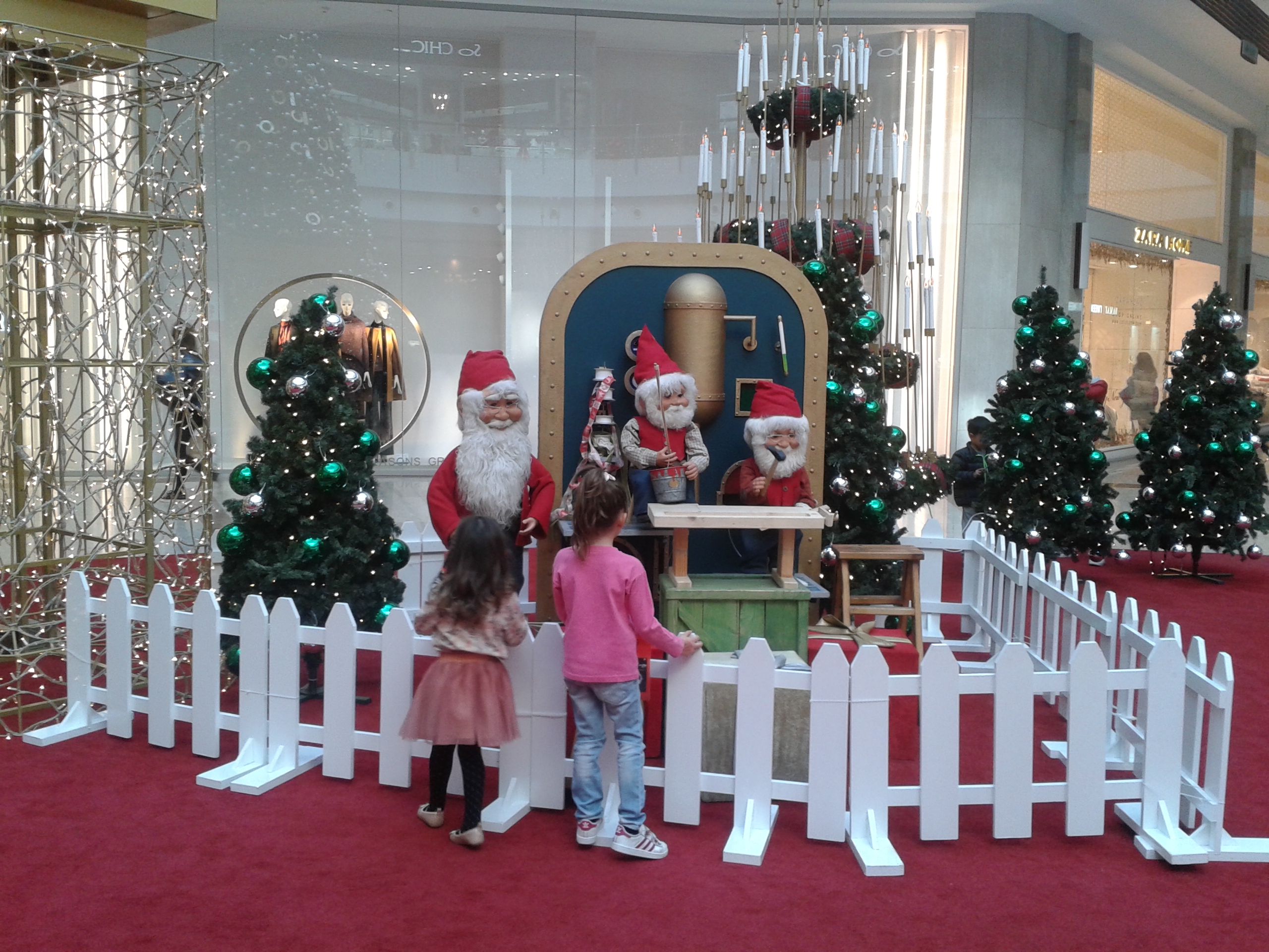 Girls looking at Santa figure at the playgound of an Ankara shopping mall in December 2017.